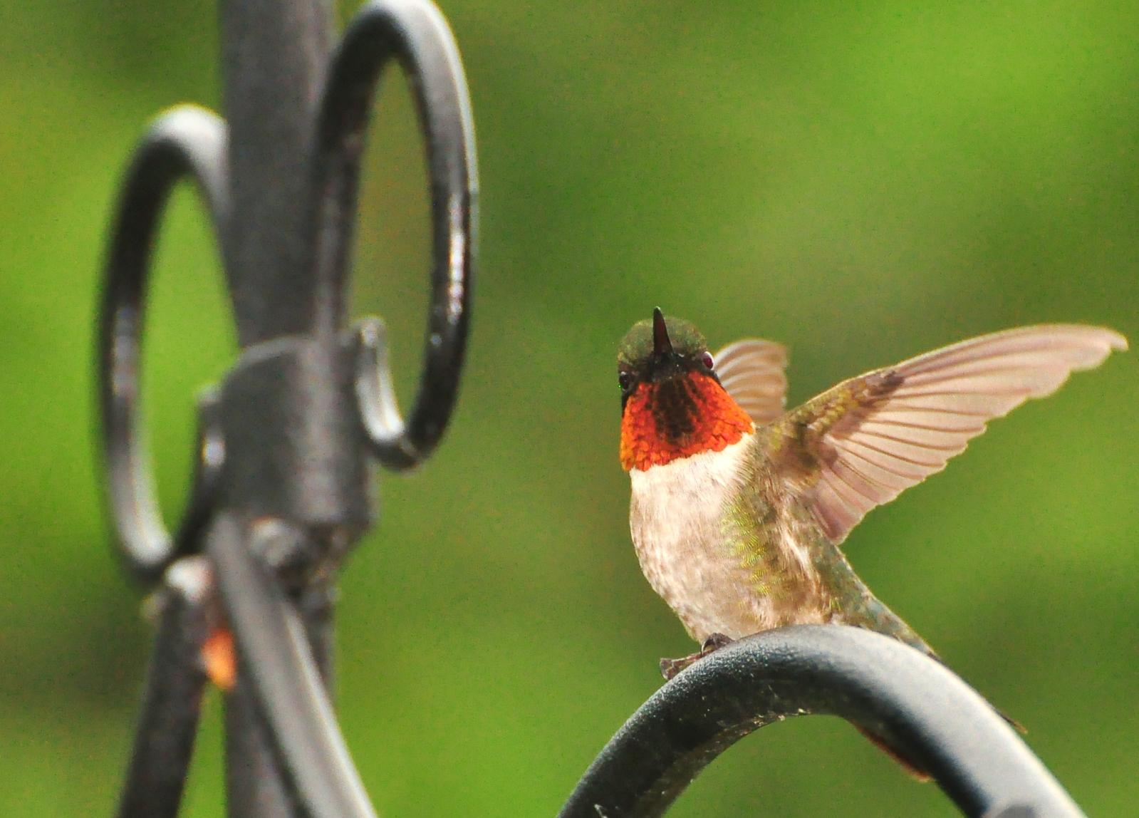 Ruby-throated Hummingbird Archilochus colubris, Illinois